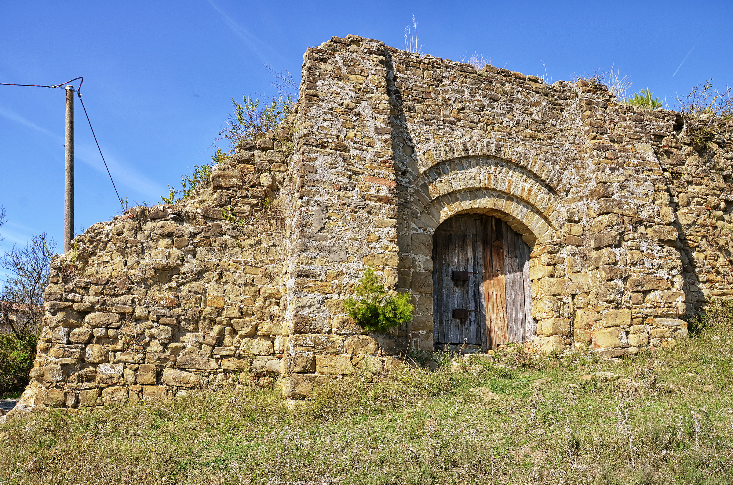 The southeastern walls of the ishëm Castle, Albania